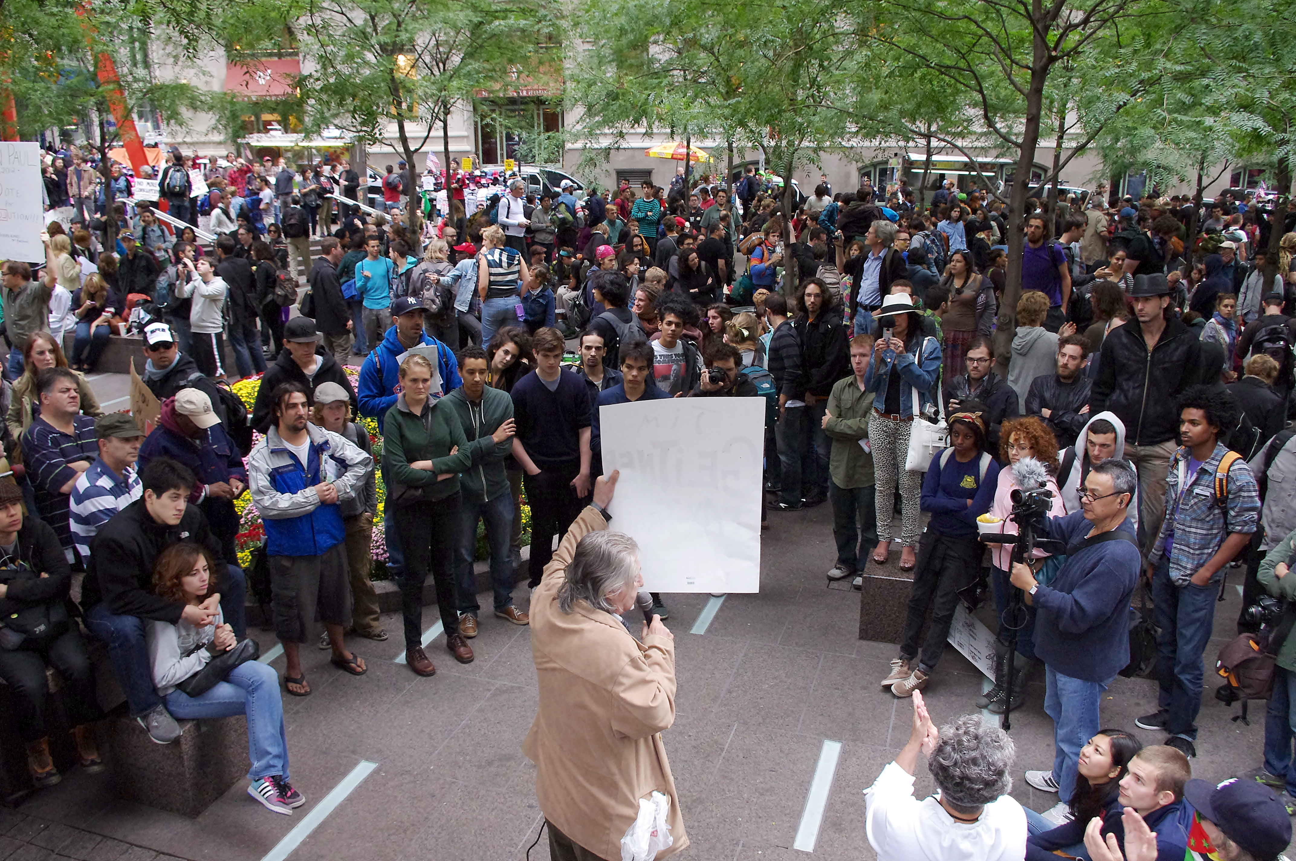 Protesters at the Occupy Wall Street protest in New York.